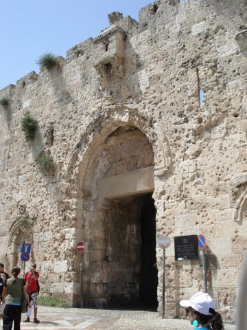 Picture of Zion Gate (Sha'ar Tzion)